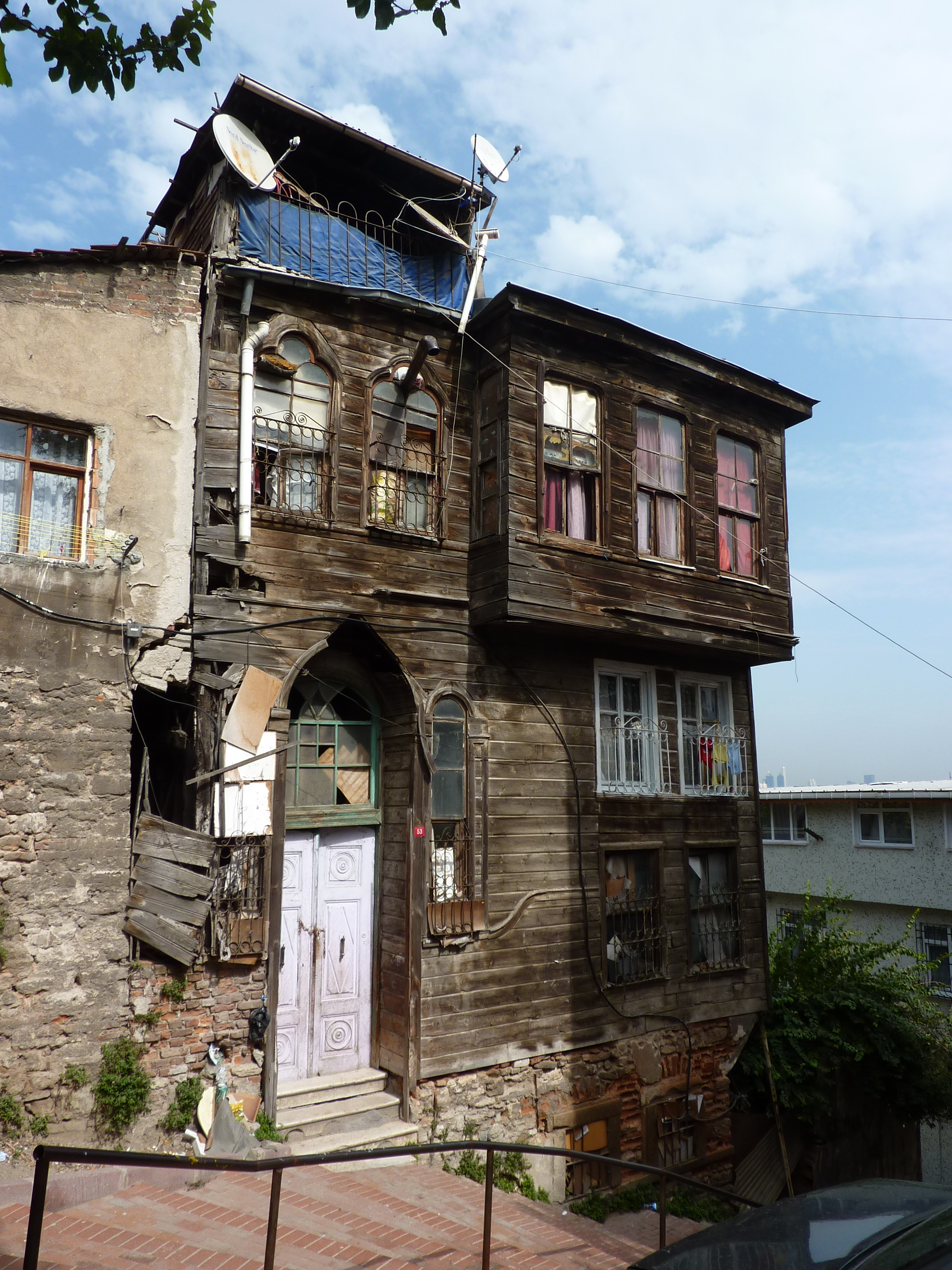 On the streets of Phanar.